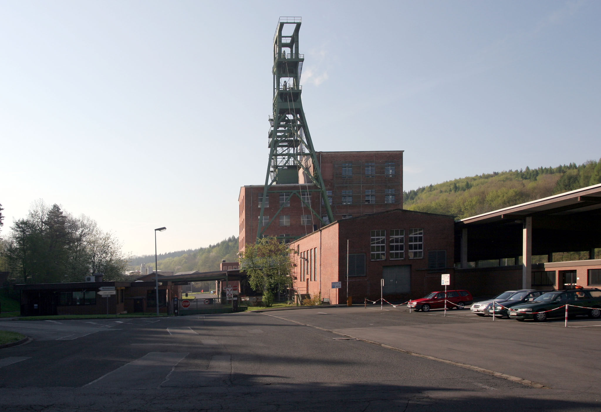 The Herfa-Neurode hazardous waste repository